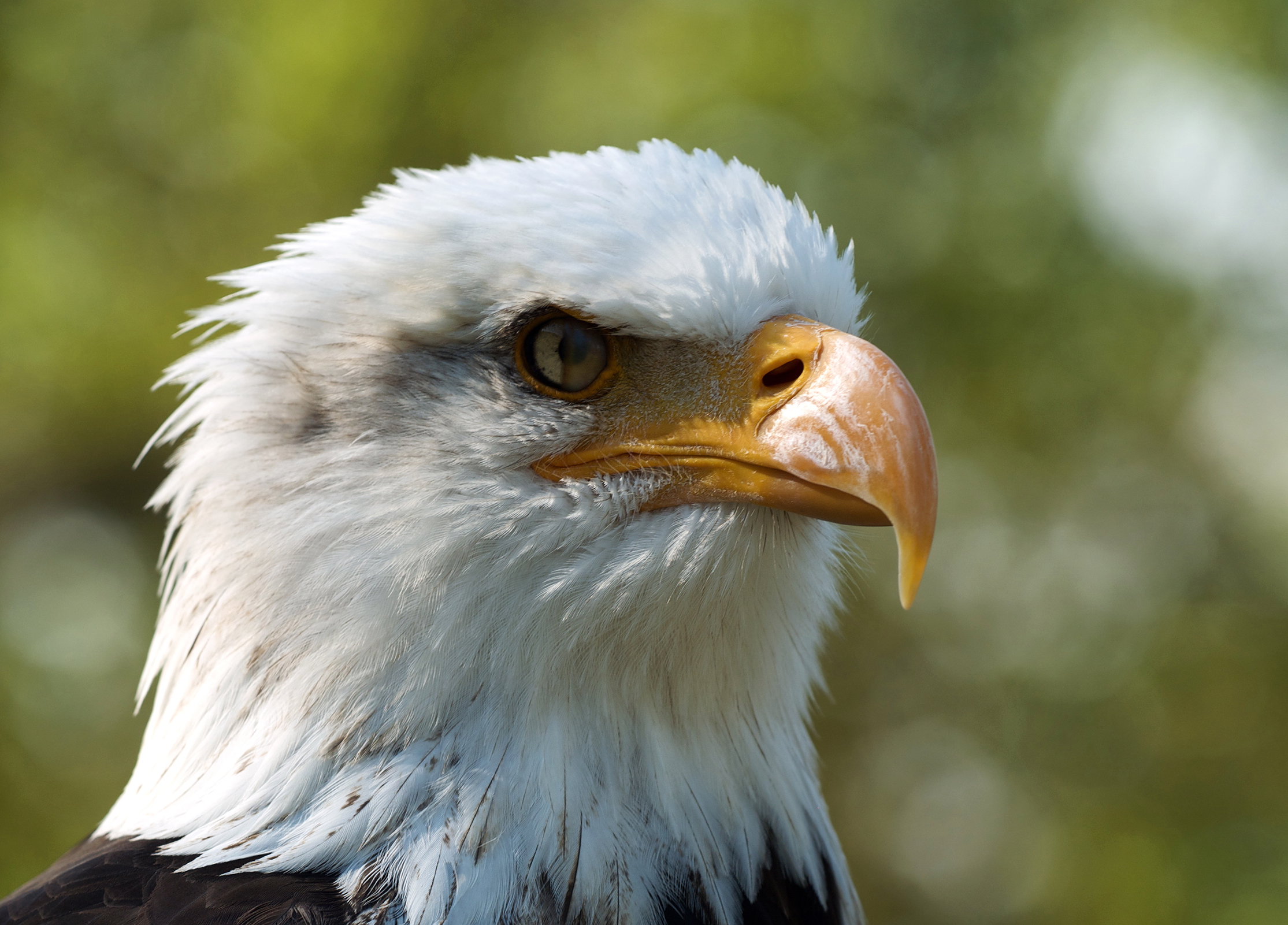 Bald eagle (Haliaeetus leucocephalus) with visible Nictitating membrane on a bird show on the castle Augustusburg, Germany